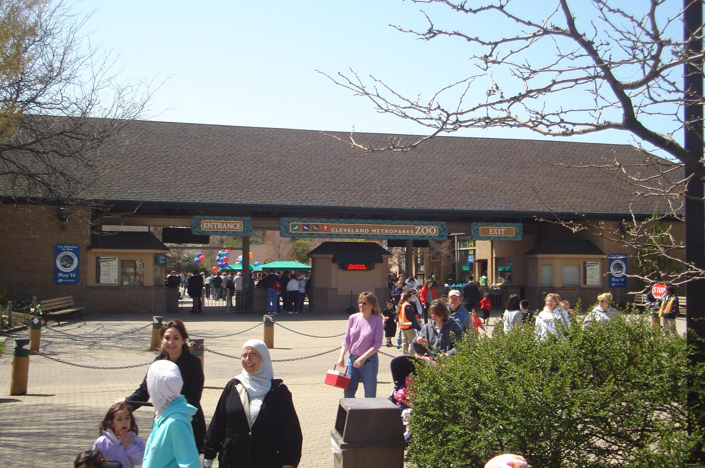 The Cleveland Metroparks Zoo entrance, seen in April 2006.